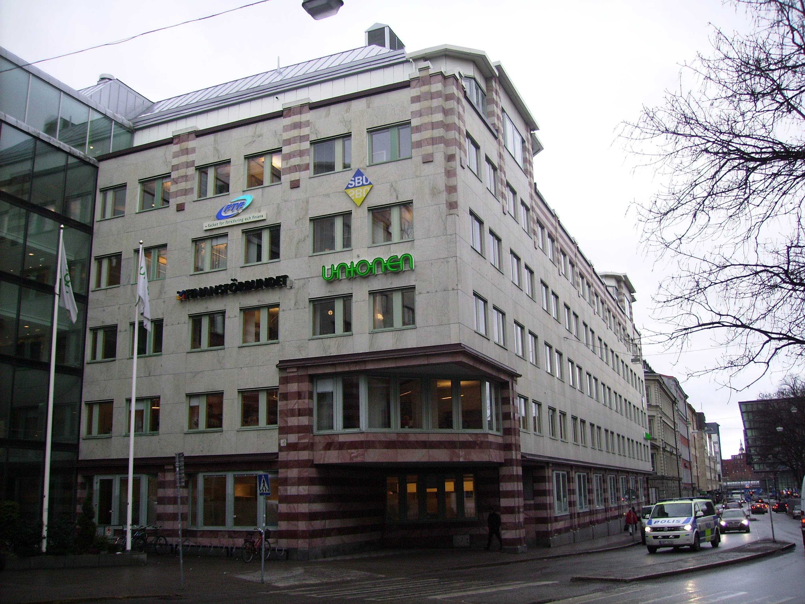 Picture of Unionen's building in Stockholm